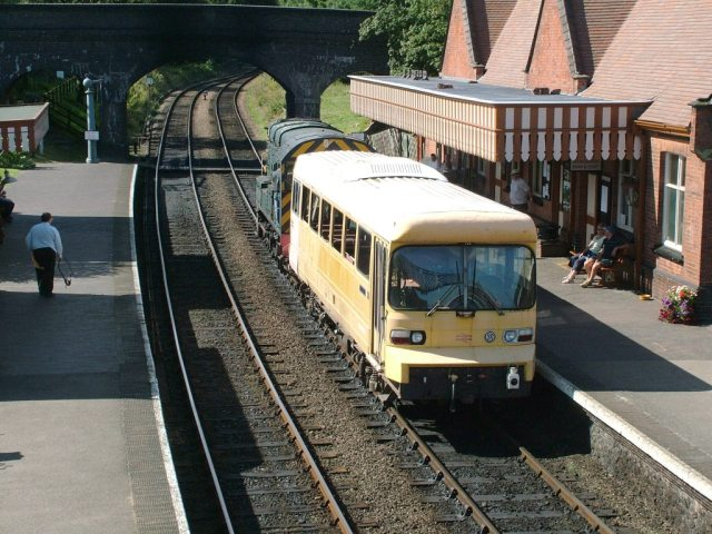 The unique Leyland Railbus LEV1 is shunted at Weybourne Station, North Norfolk Railway